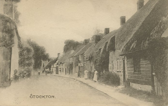 Photograph of main village street at Stockton, Wiltshire